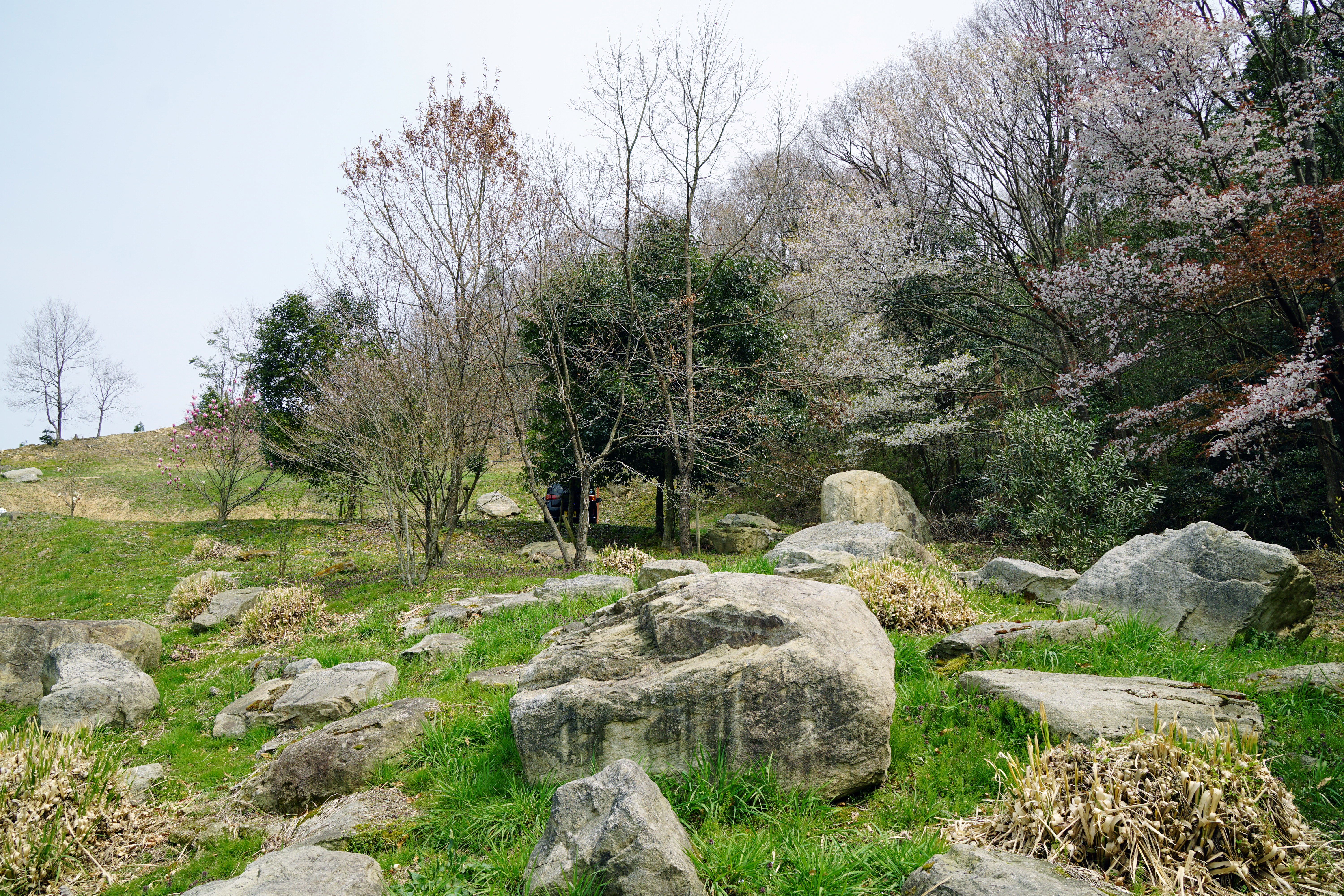 Konda Yakushi Onsen Nukumori-no-sato in Sasayama, Hyogo prefecture, Japan.